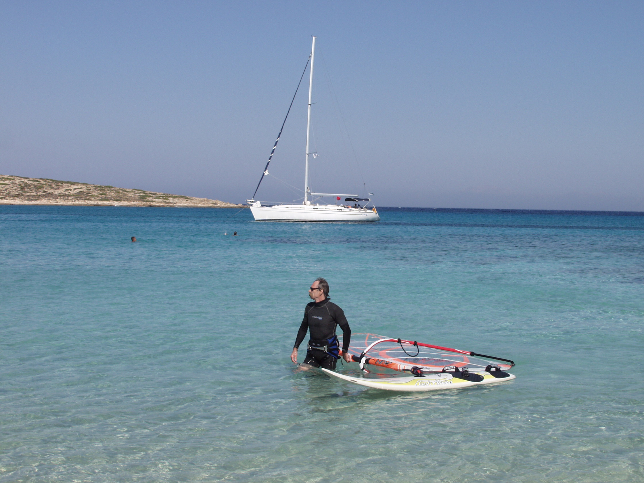 Pori, Pano Koufonisi, Cyclades, Greece